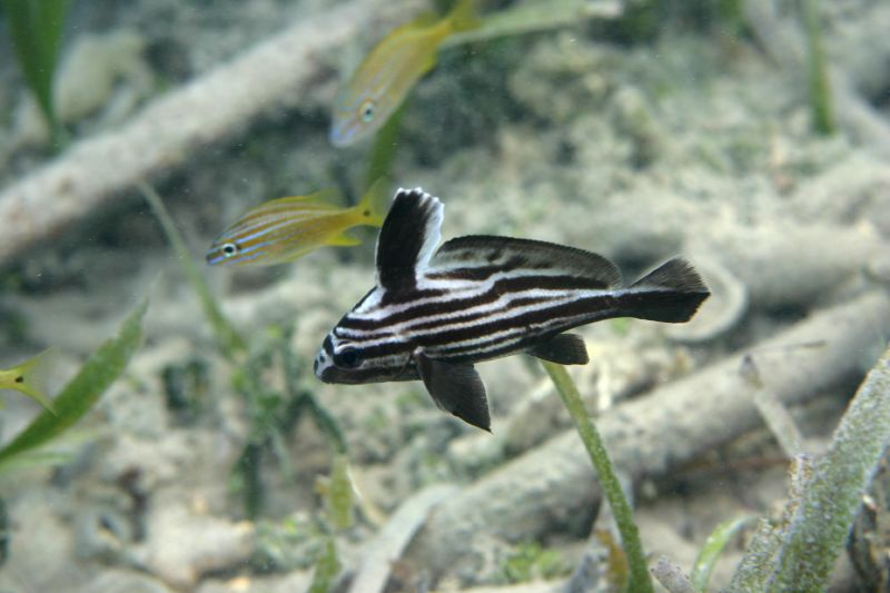 Snorkeling in Cowpet Bay, St. Thomas, USVI Canon 300D Pareques acuminatus ?. Juvenile